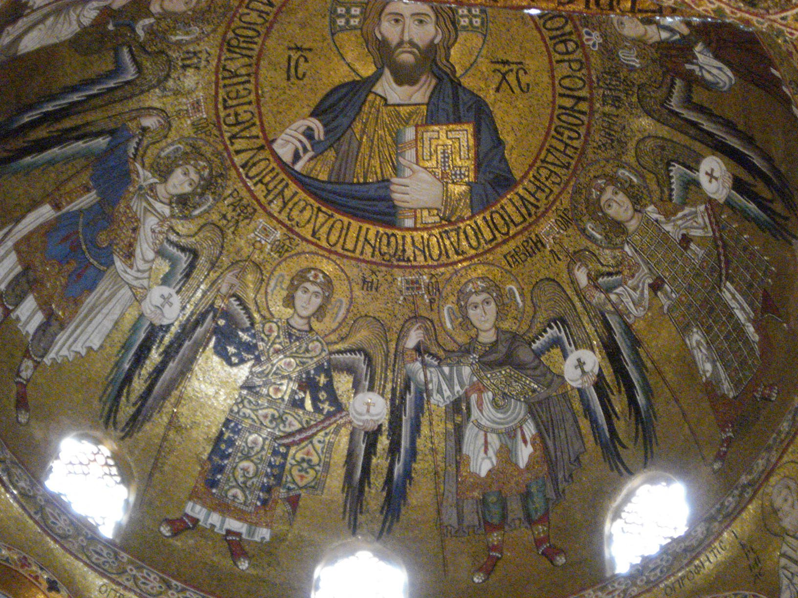 Christ Pantocrator in the cupola